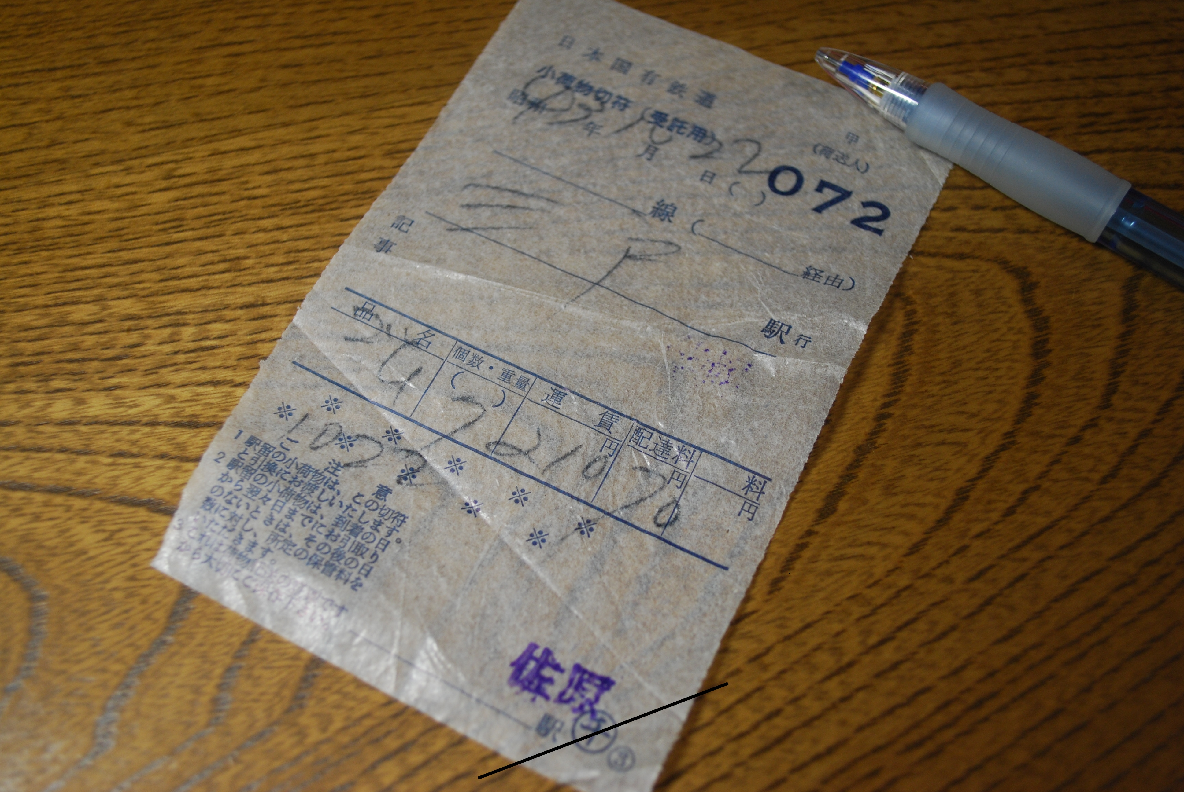 Parcel ticket of Jananese National Railways from Sahara and Sannohe, dated 22 October 1968